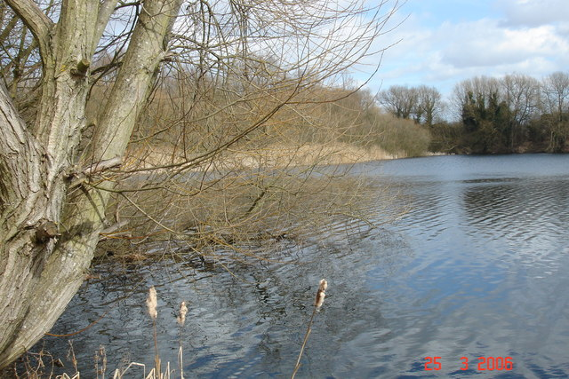 Picture of Turnford Pits, Hertfordshire